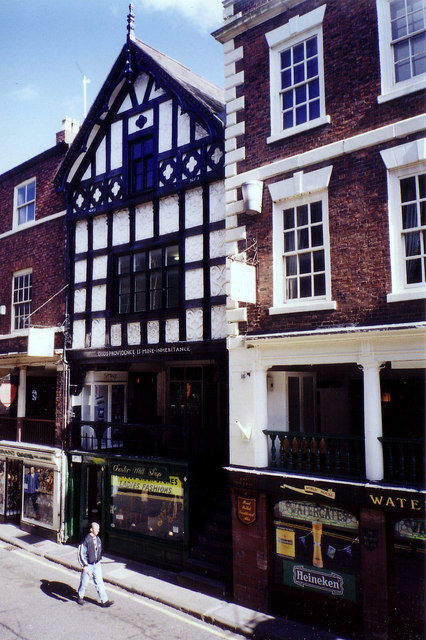 God's Providence House, Watergate Street The building takes its name from the inscription "God's Providence is mine Inheritance". It is reputed to be the only building in Chester untouched by the plague, but this may not be unconnected with the fact that it was built in 1652 and the last outbreak of plague was in 1648. A Row runs through it.